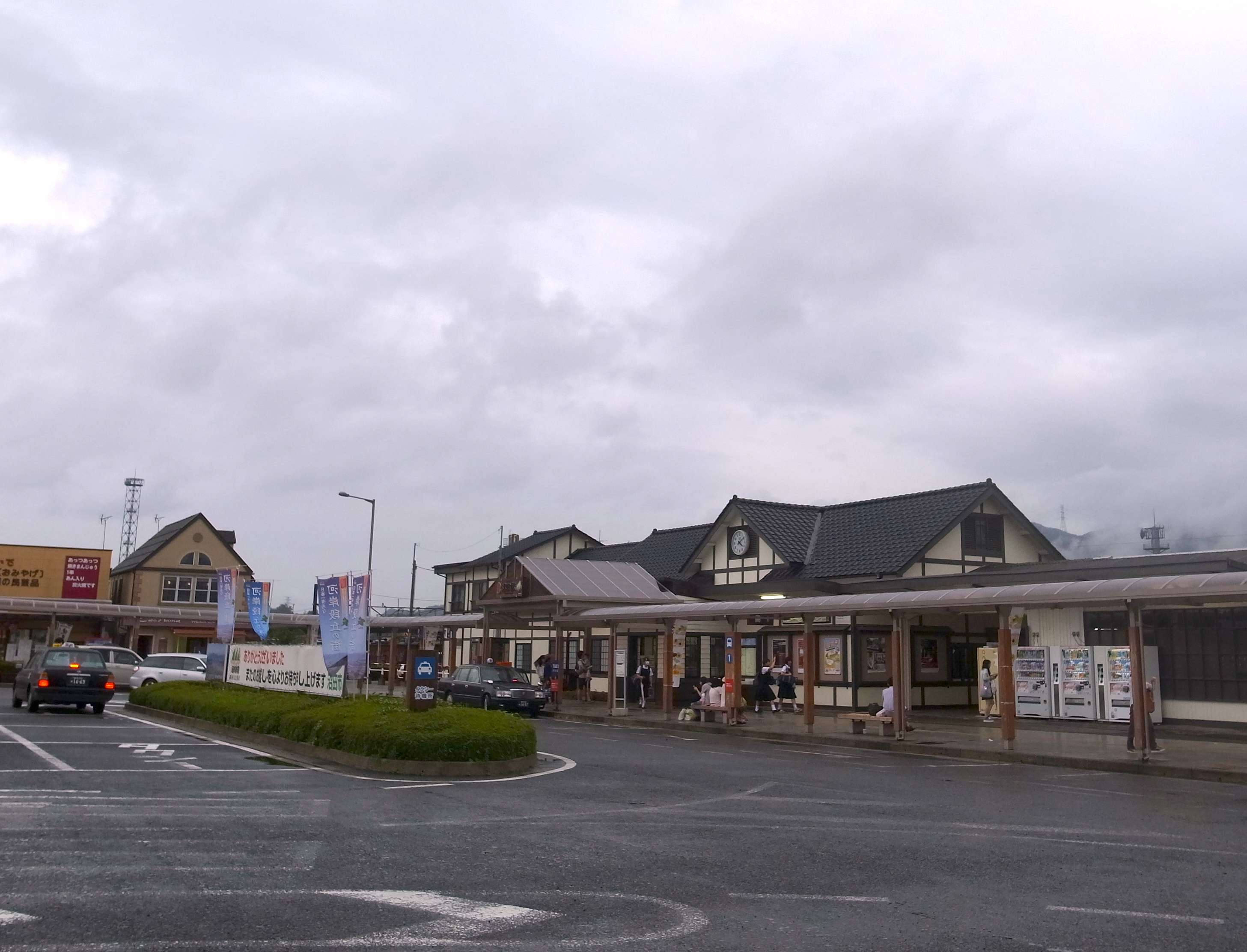 The station building and forecourt at Numata Station in Numata, Gunma Prefecture, Japan